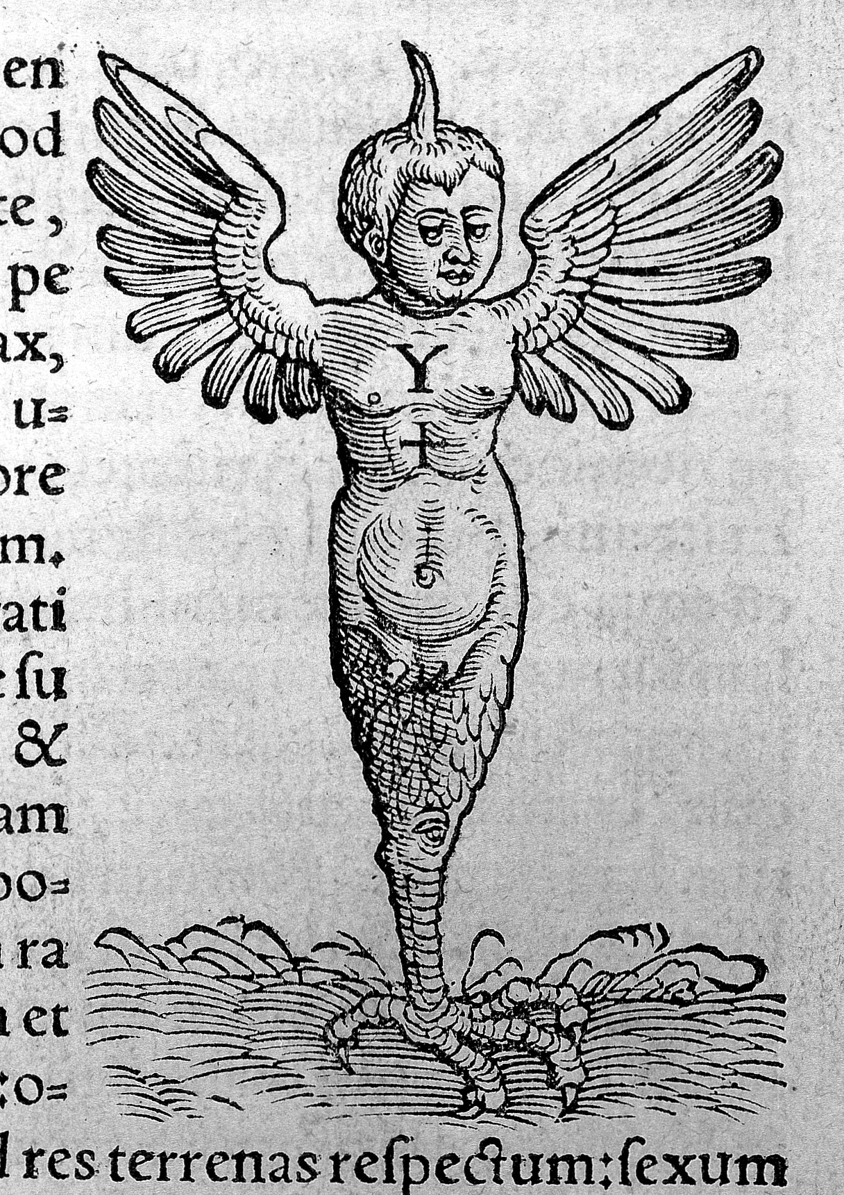 De conceptu et generatione hominis, et iis quae circa haec potissimum consyderantur libri sex ... Tiguri: Christophorus Froschoverus, 1554. folio 51, the monster of Ravenna. Rare Books Keywords: epb; de conceptu et generatione; jakob rueff